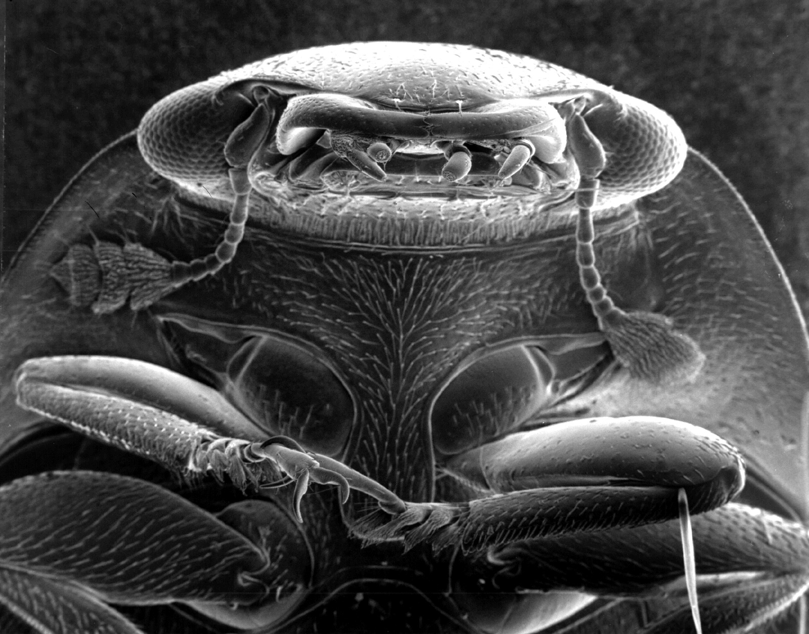 SEM image of a shining flower beetle (Phalacridae)